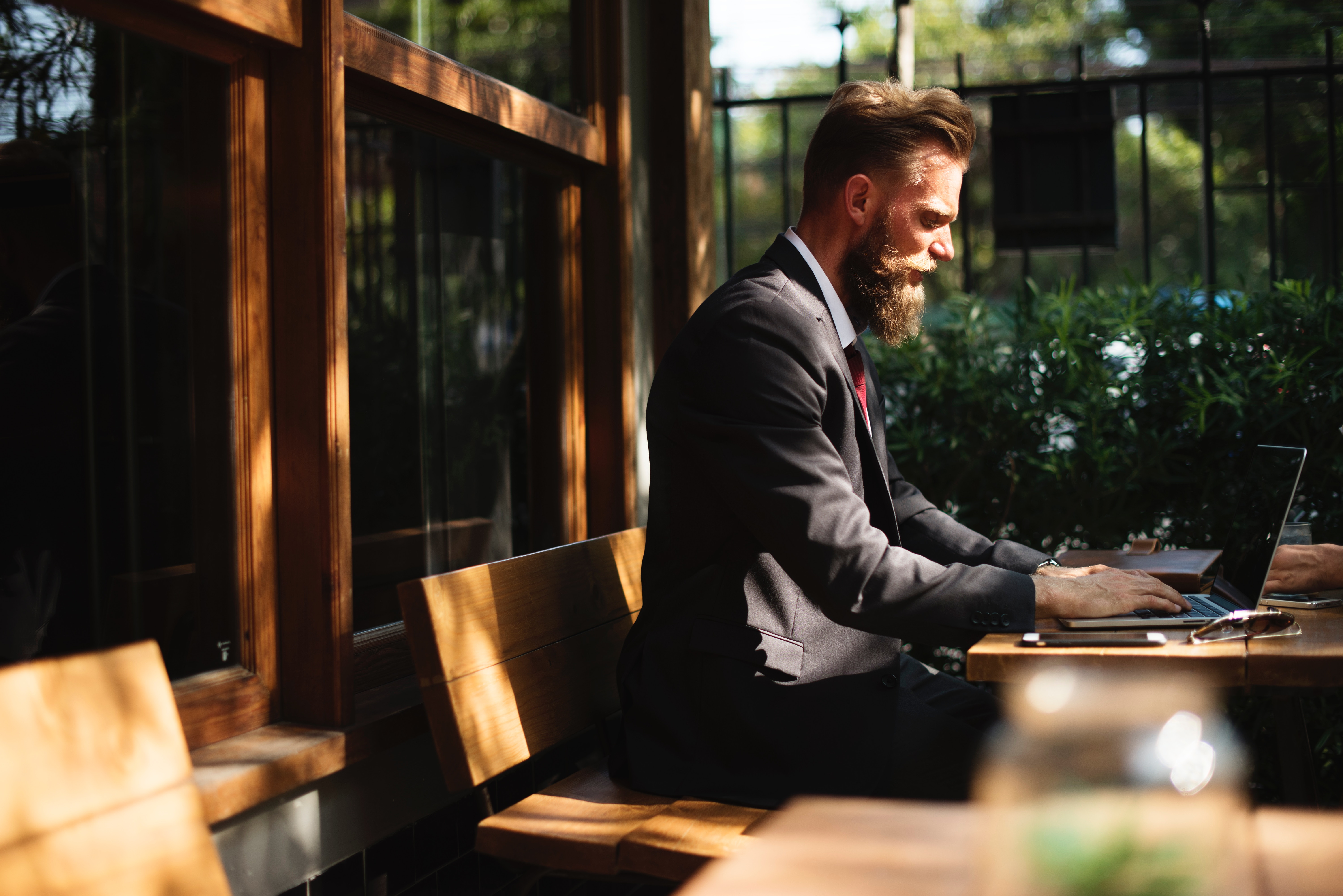 Digital nomad working on a laptop computer in a cafe. Sometimes telecommuters, entrepreneurs or other people with flexible work arrangements work at places of their choosing.